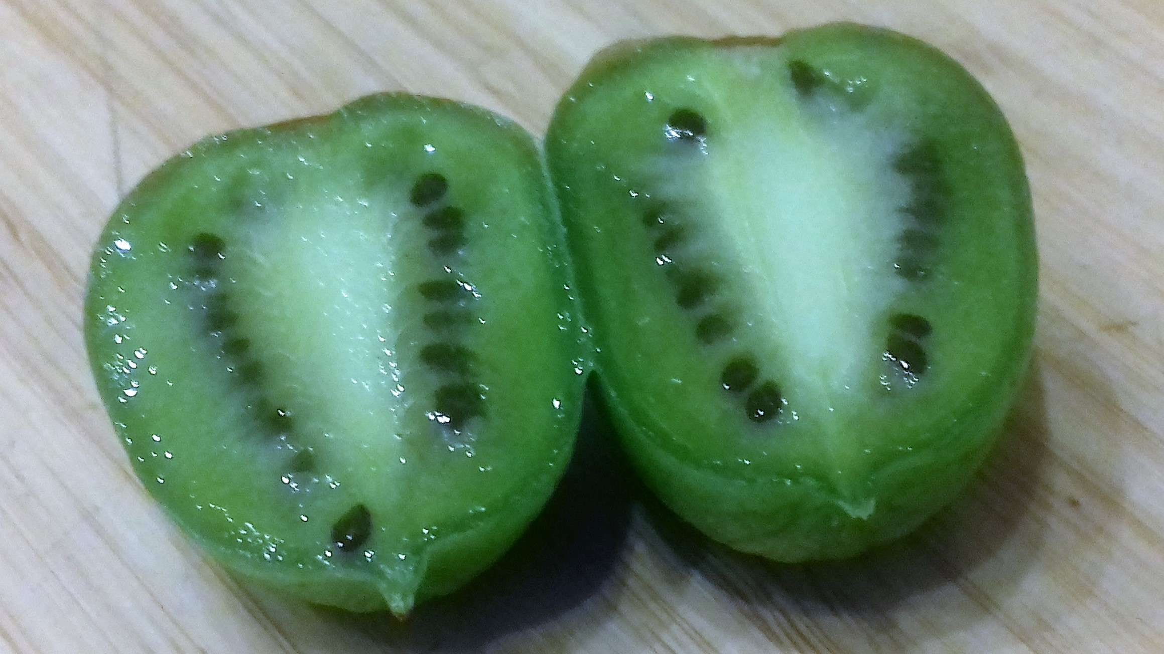 Hardy kiwi (Actinidia arguta) fruit cut in two, in a kitchen, in London, England.